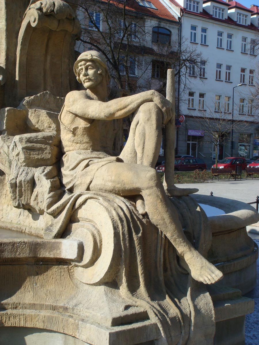 Detail of the Fountain of Ceres at DAszyński Square in Opole